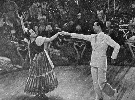 Photo of Veloz and Yolanda in a scene from the 1937 film Champagne Waltz, which was part of an ad for the film.